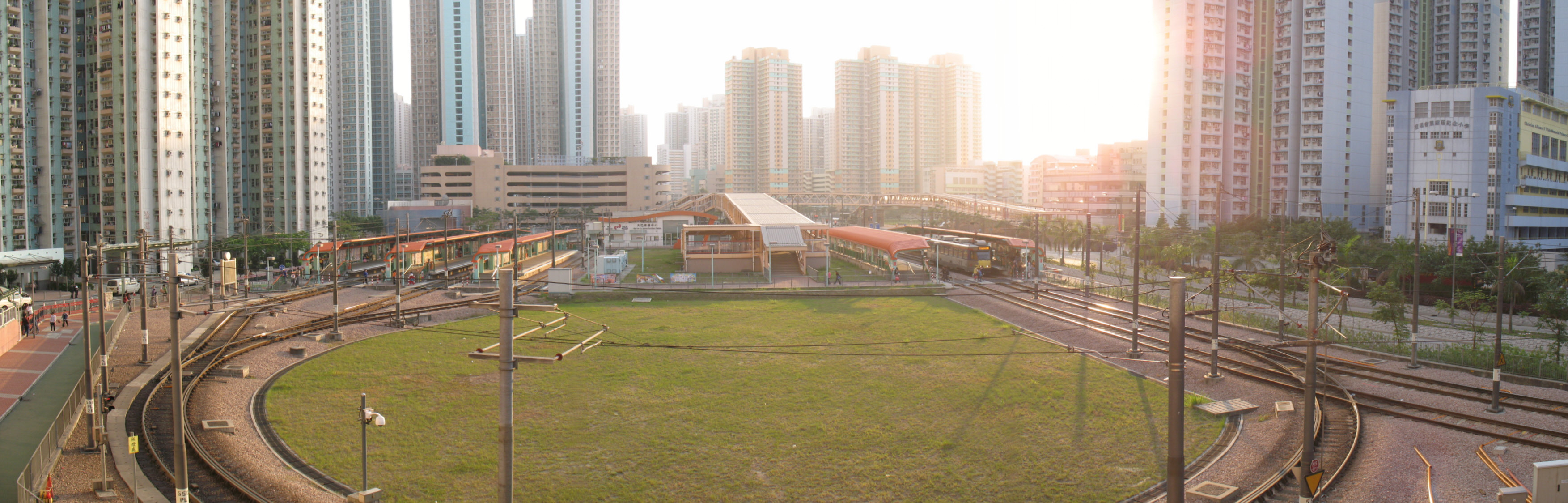 MTR Light Rail Tin Yat stop in Tin Shui Wai, Hong Kong. 中文（香港）: 港鐵輕鐵天逸站全景相。